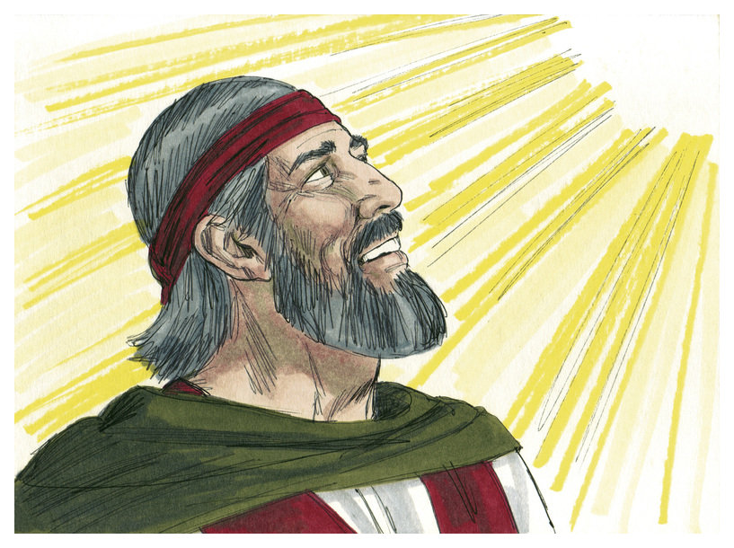 Biblical illustration of Book of Exodus Chapter 6